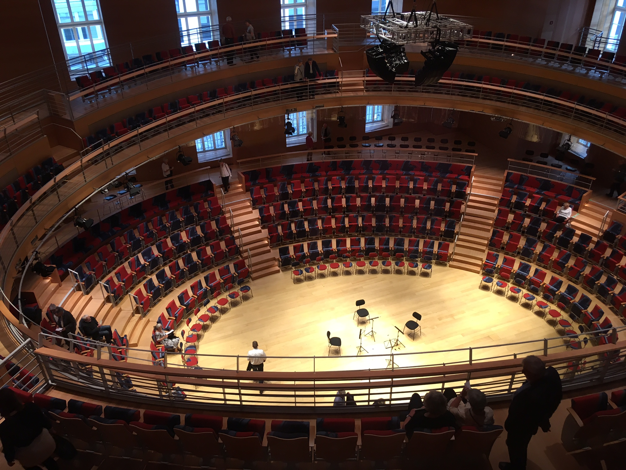 The Pierre-Boulez-Hall, chamber music hall of the Barenboim-Said-Academy, in the city center of Berlin